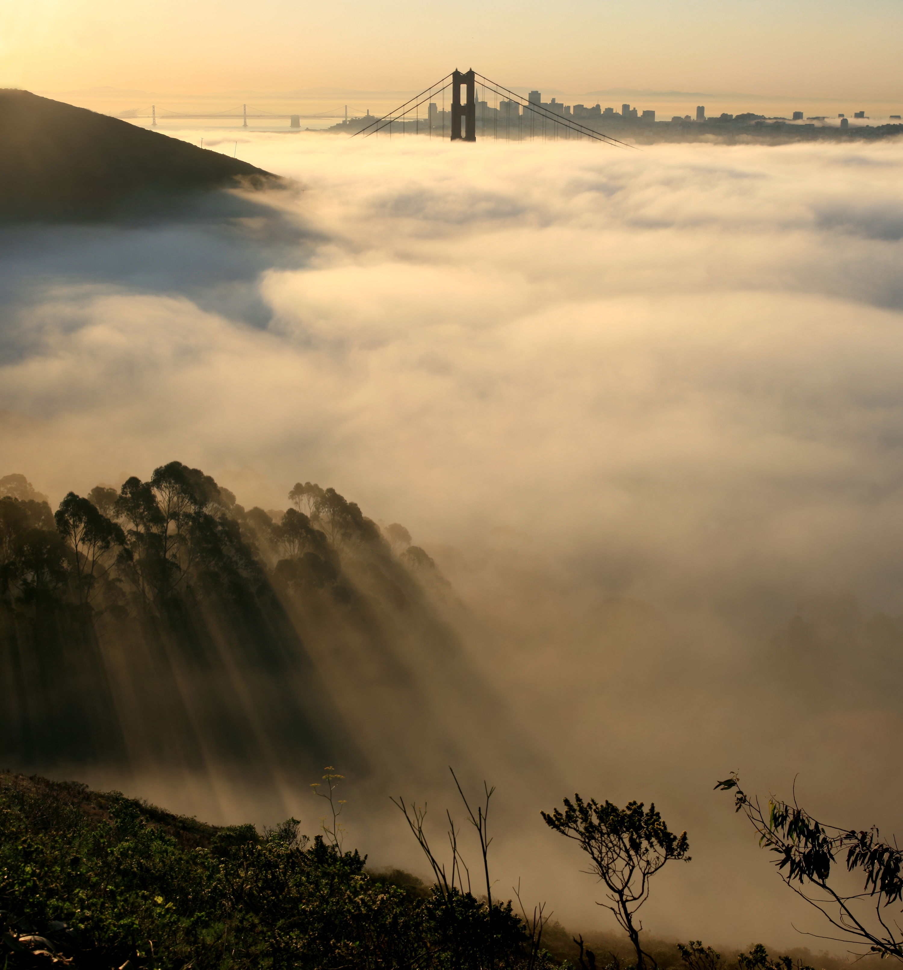 Out of fog Bay Bridge and Golden Gate Bridge and San Francisco in fog and crepuscular rays. The image was sent to Dr. Andrew T. Young,. Here's his description: "... it's unusual to see these shadows so clearly at such an oblique geometry: usually, the crepuscular rays are best seen in forward scattering, and much less well in back-scattering.But here, you're looking almost at right angles to the illuminating rays." Panorama stitched from images photographed at the same time, the same date and the same place (Commons:Featured_picture_candidates/File:San_francisco_in_fog_with_rays.jpg).